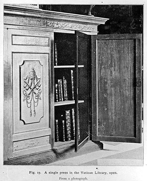 original drawing has caption "A single press in the Vatican Library, open"